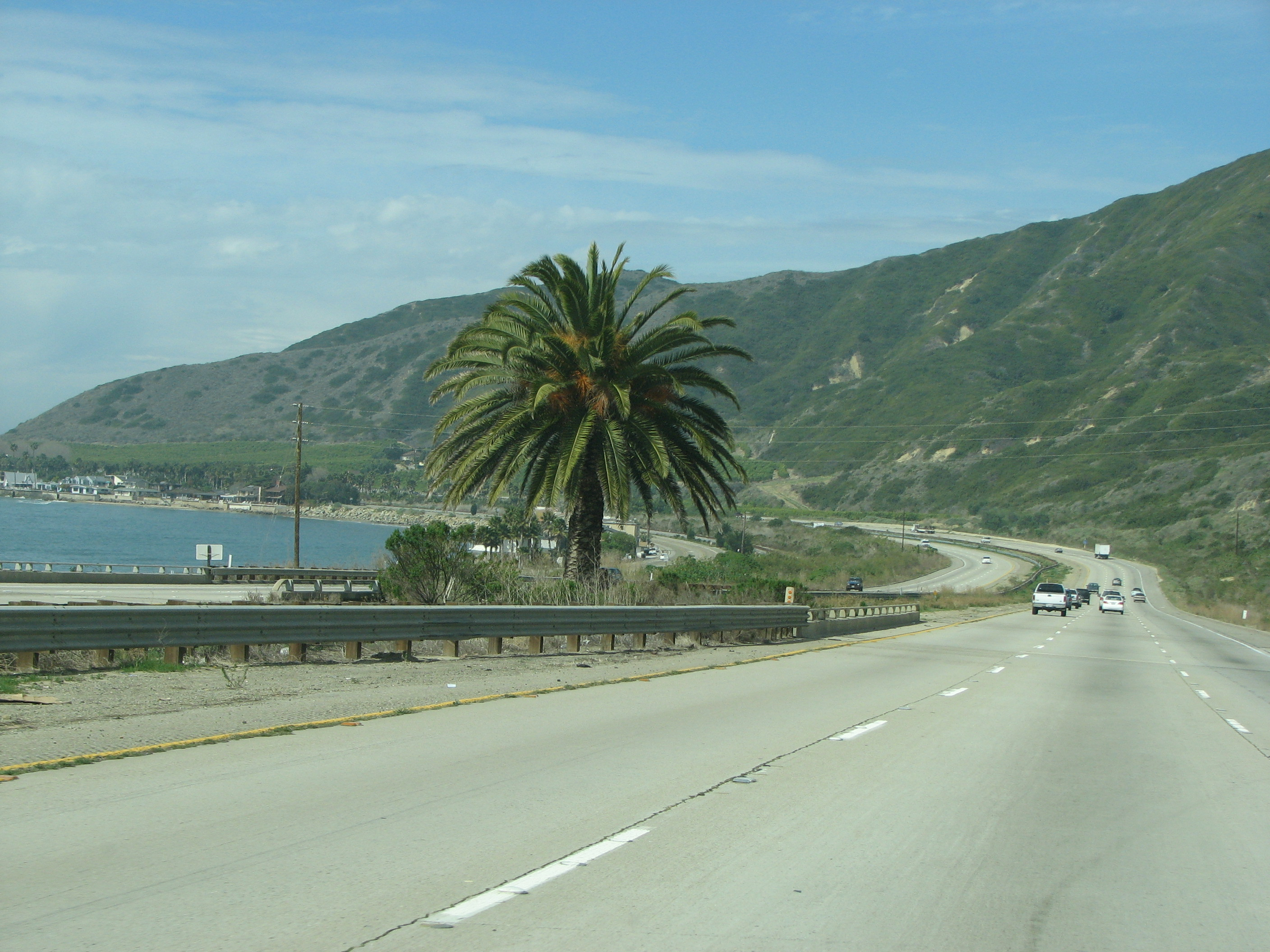 California State Route 1—Pacific Coast Highway — near Malibu, in Southern California.